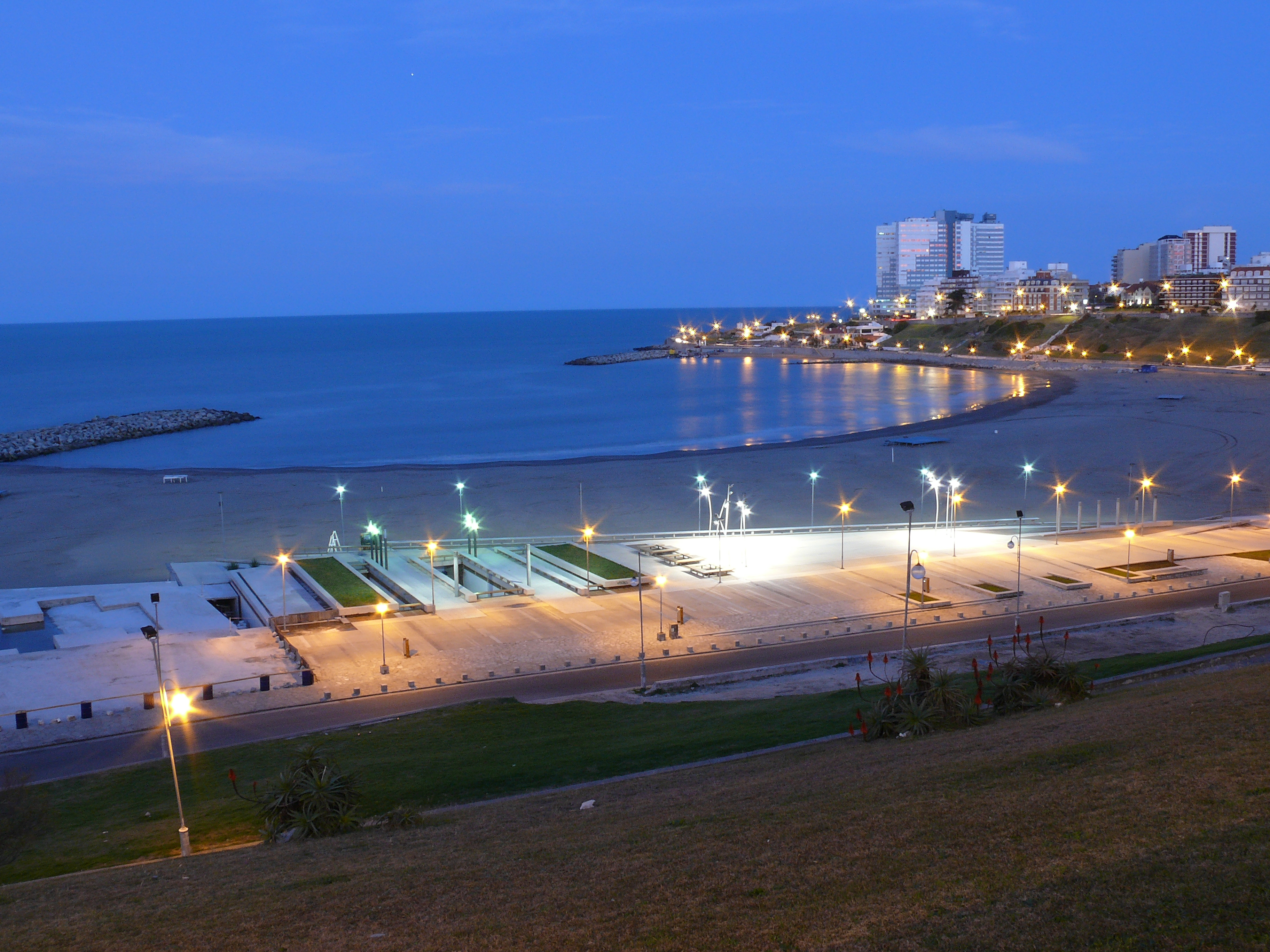 Panoramic view of Varese beach at night